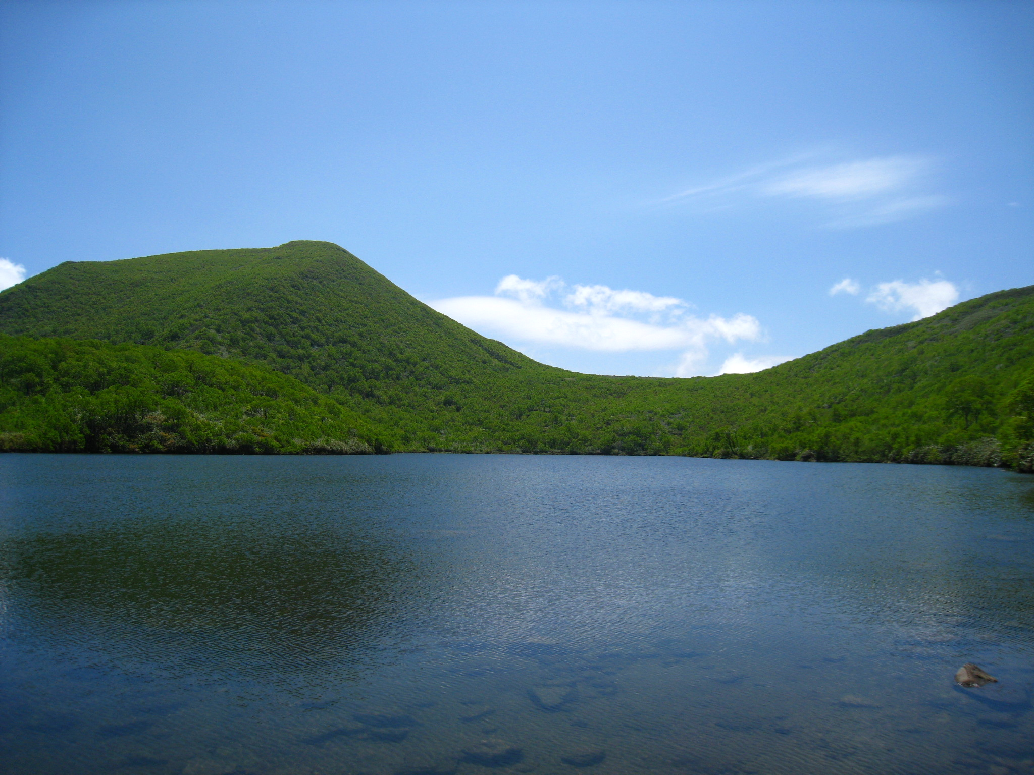 Naganuma Pond and Mount Chisenupuri in Kyowa, Hokkaido.